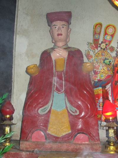 Statue of Emperor Mạc Mậu Hợp (莫茂洽, 1560 - 1592) at Bạch Đa Pagoda, Dương Kinh County, Hải Phòng City, Vietnam.